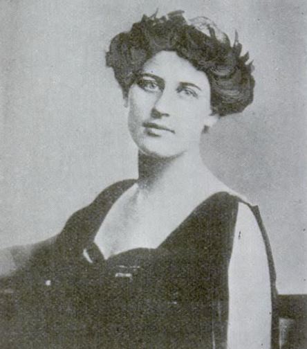 Inez Milholland